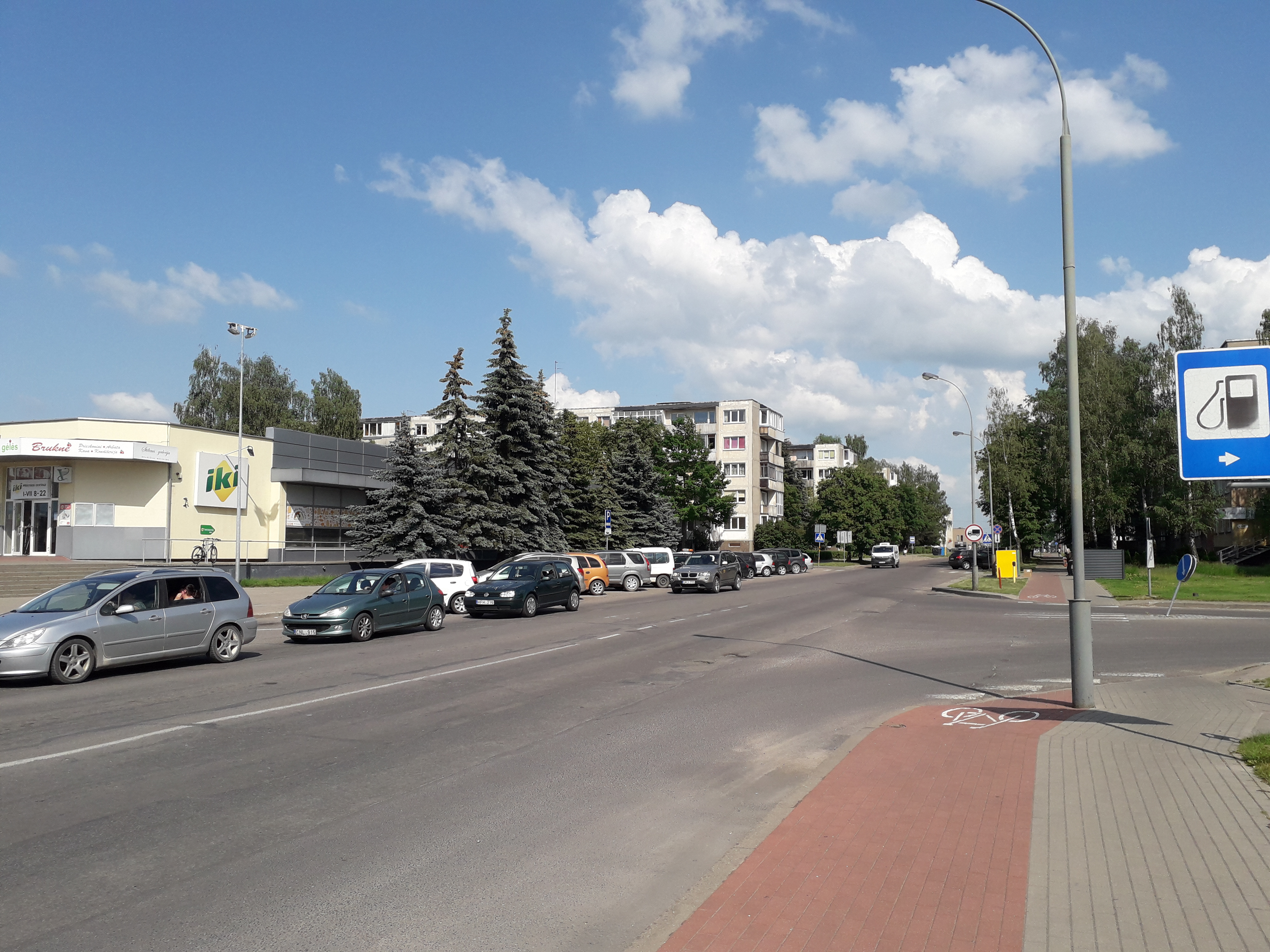 Parko street in Panevėžys, Lithuania